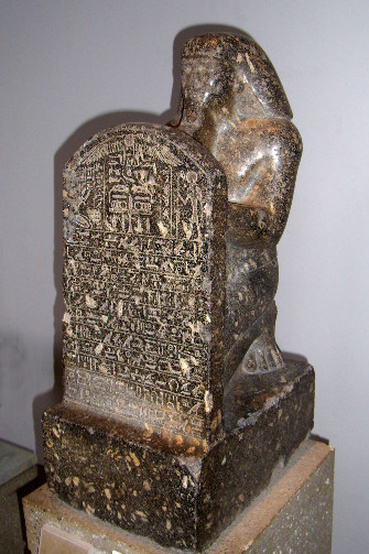 Statue of Montemhat, mayor of Thebes, 25th/26th Dynasty; British Museum EA 1643